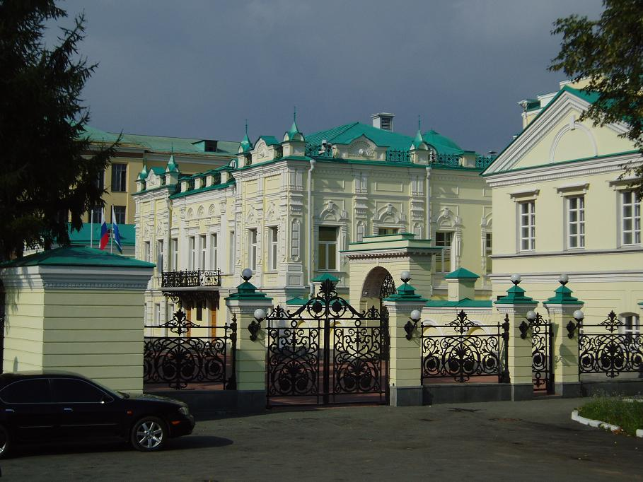 House of governor of Yekaterinburg. Originally built 1818-1821 for mechant Grigory Zotov and later inhabited by goldmine owner Savva Tarasov.